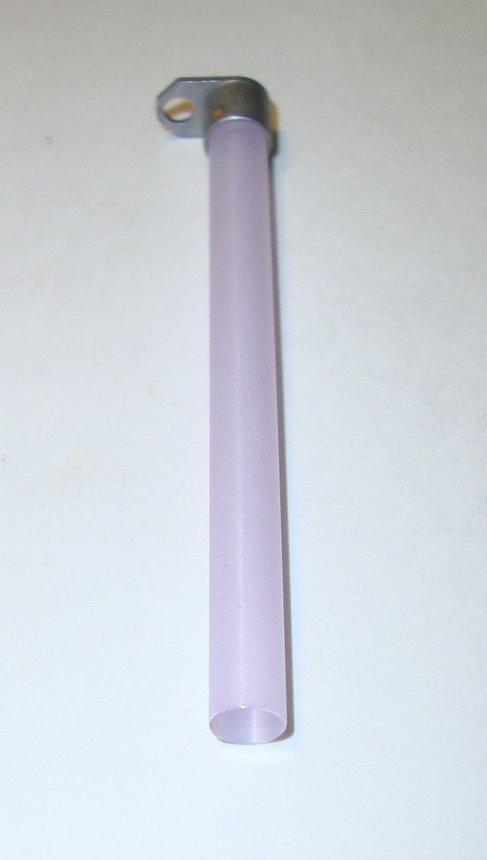 This is an Nd:YAG laser rod, measuring 5 mm by 60 mm. There is a mounting sleeve attached to one end of the rod.